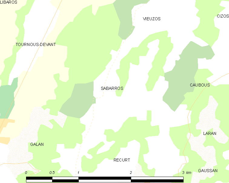 Map of French municipality